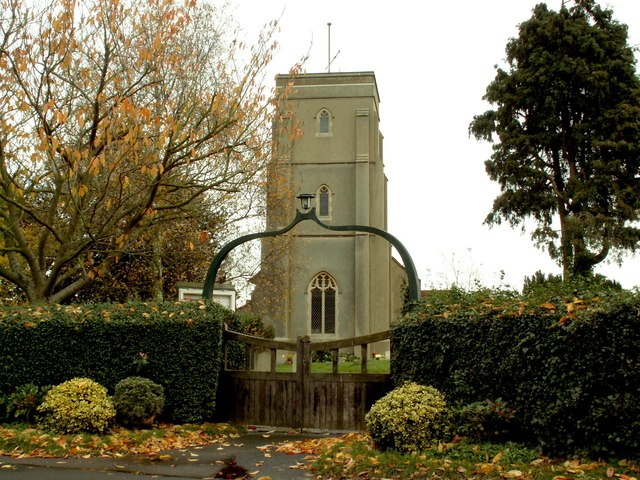 St. Andrews church, Chelmondiston, Suffolk